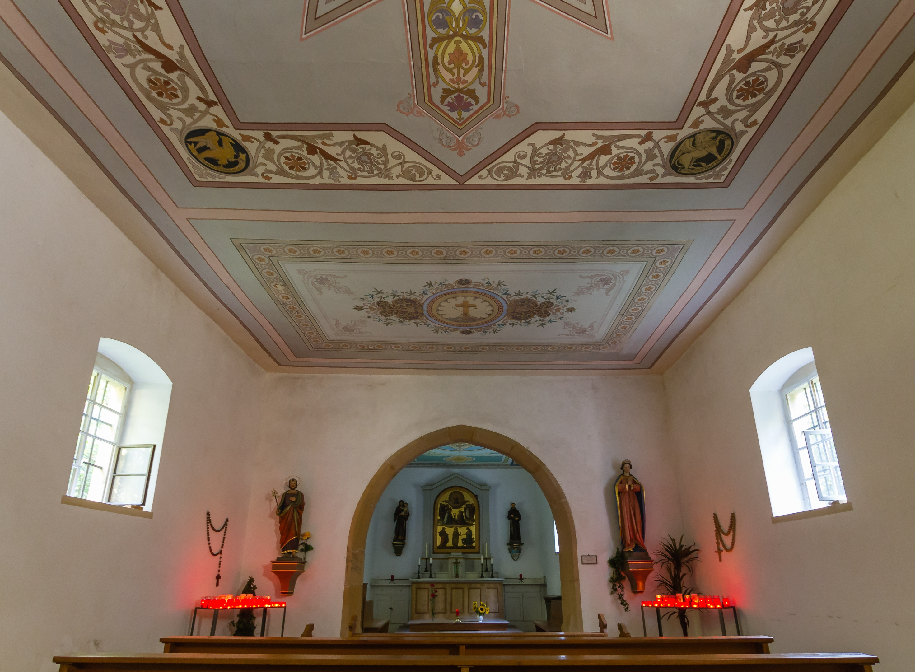 This is a photograph of an architectural monument.It is on the list of cultural monuments of Ruppertsberg Designation: Klausenkapelle or Klause Zeiselbach Construction time: 1681/88 Description: Catholic pilgrimage chapel Fourteen Holy Helpers Hall, in the core late gothic, shortly before 1350 Partial renewals 1705, 1776, 1846, 1952 Bell, 1870 by Andreas Hamm, Frankenthal Sandstone pedestal, designated 1746 Crucifixion group by Wilhelm Jansen, Cologne as Station XII of the neo-Gothic Stations of the Cross, 1871 west of the chapel fragment of a tomb slab, around 1600 Place: Local municipality Ruppertsberg, Collective municipality Deidesheim, Rural district Bad Dürkheim, Rhineland-Palatinate, Germany Location: southwest of the village, immediately south of the boundary to Neustadt-Königsbach Field name: Sommerberg